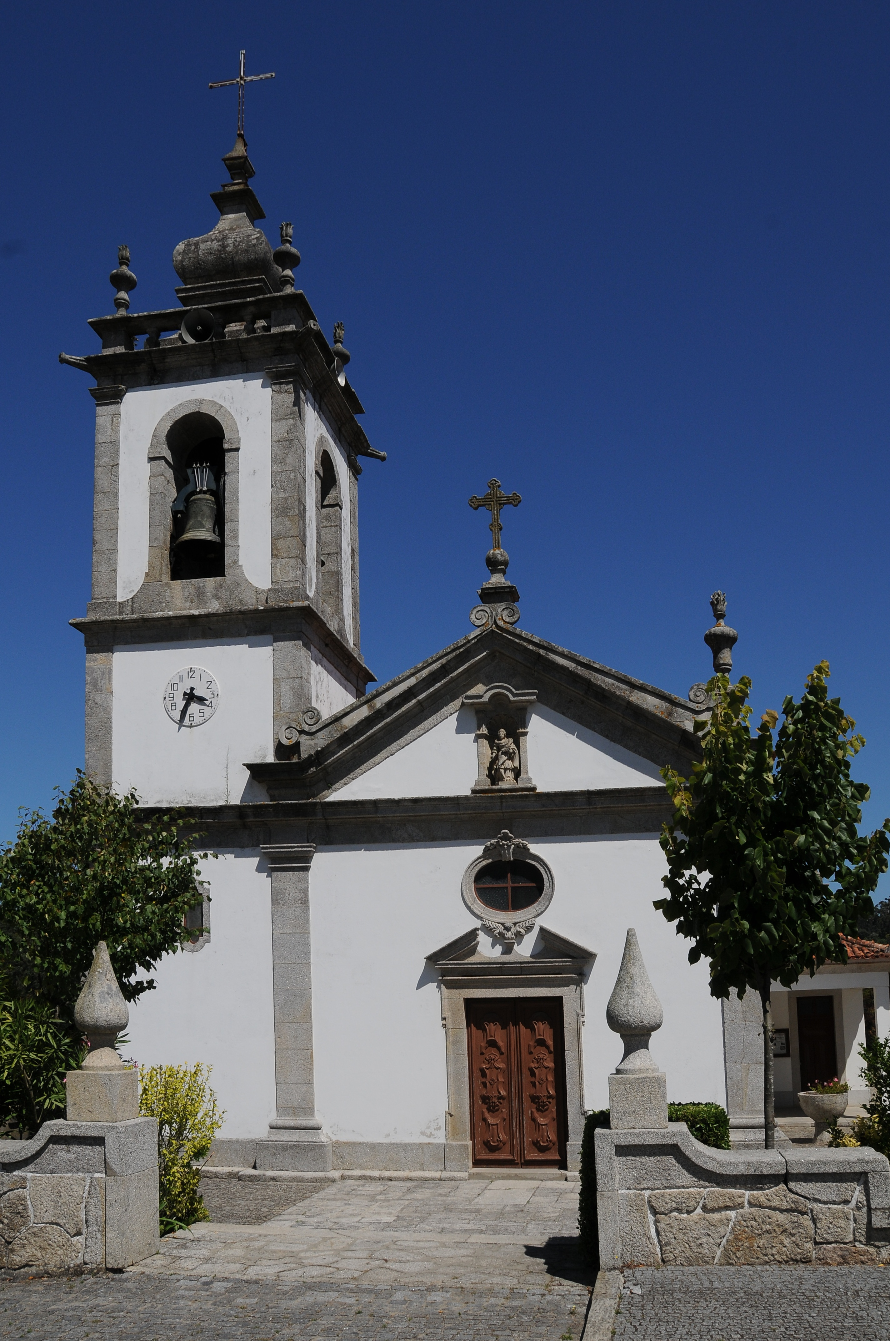 Palmeira de Faro Church, Esposende, Portugal